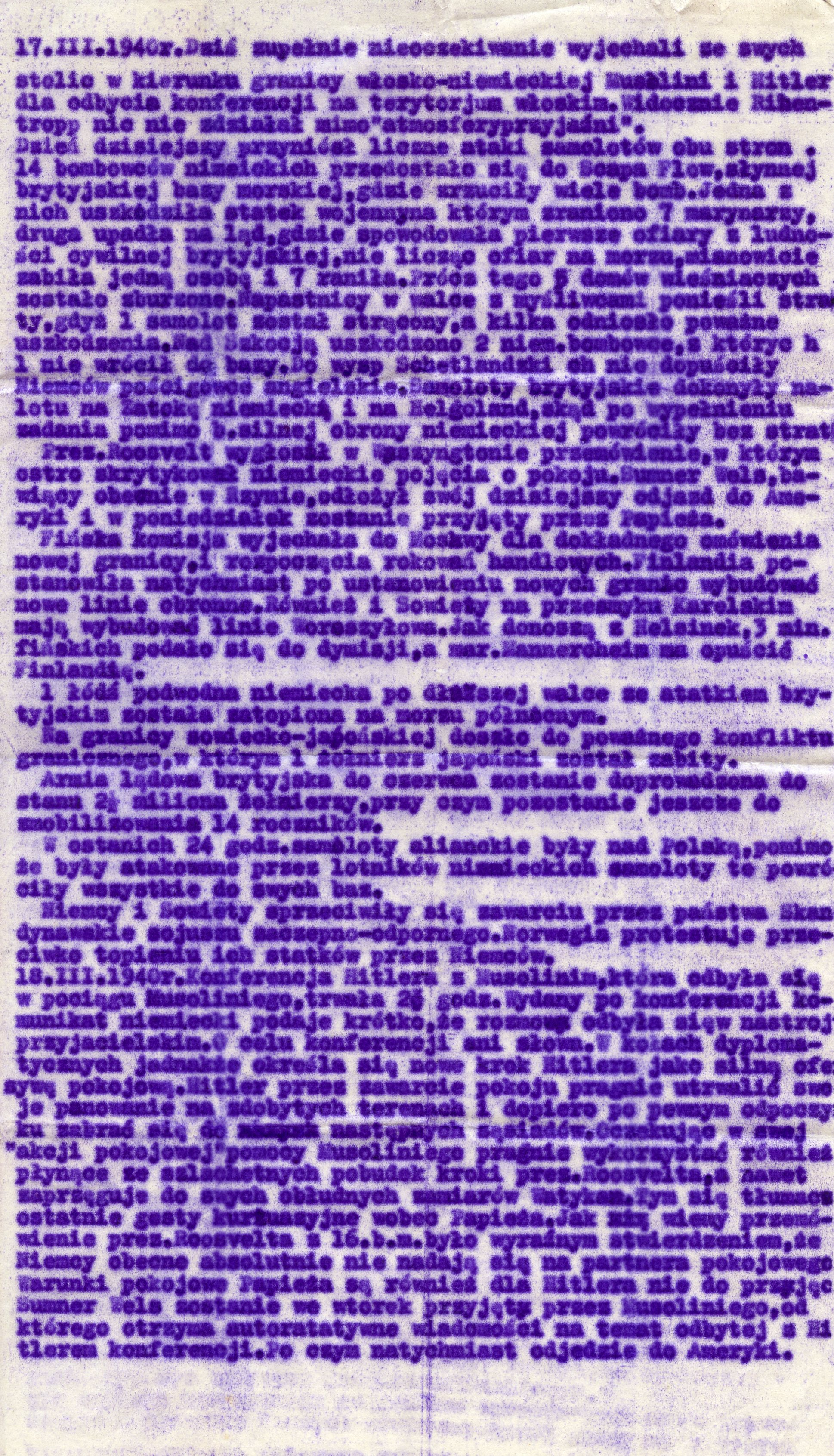 Underground leaflet (bibula). Occupied Poland, WWII. 17 March 1940.